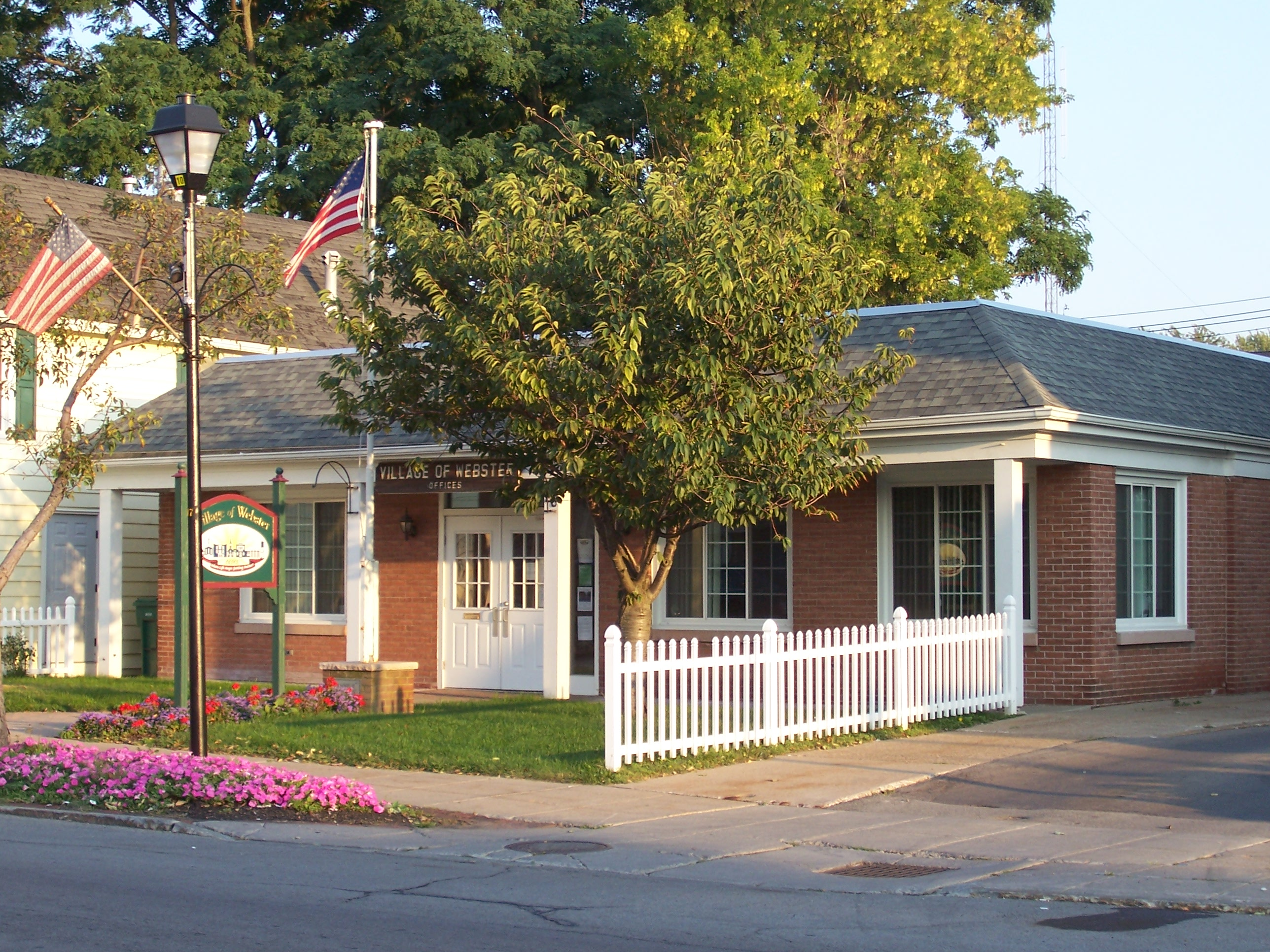 Webster, New York village hall